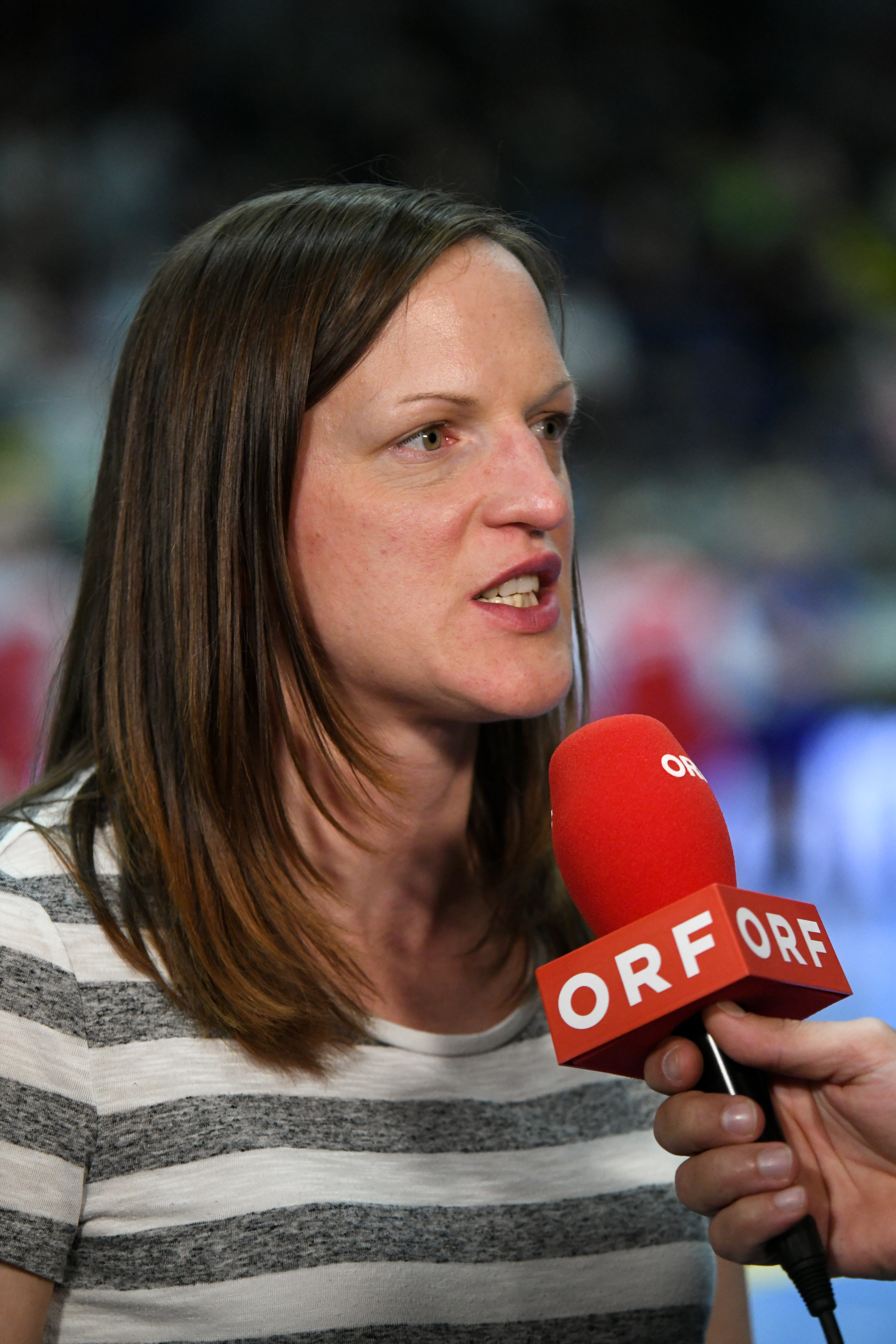 2018 Women's European Championship Qualification 2